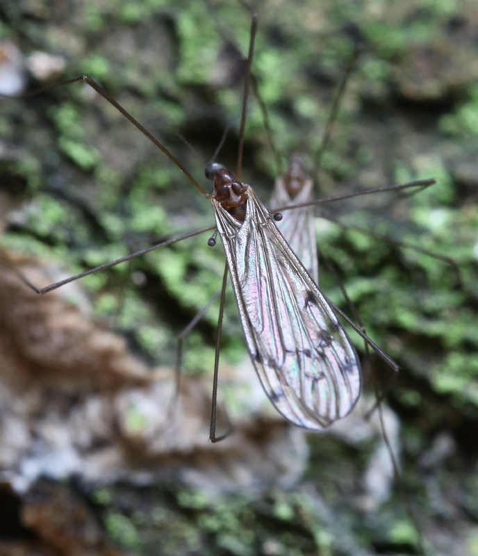 Achyrolimonia decemmaculata. Location: The Netherlands - Hardenberg